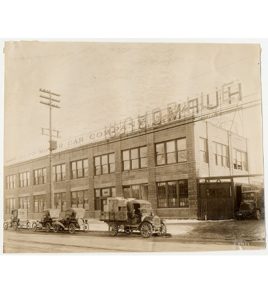 7.5x9.5 black and white sepia-toned photograph of the Hupp Motor Car Company factory exterior showing a truck and three cars in street